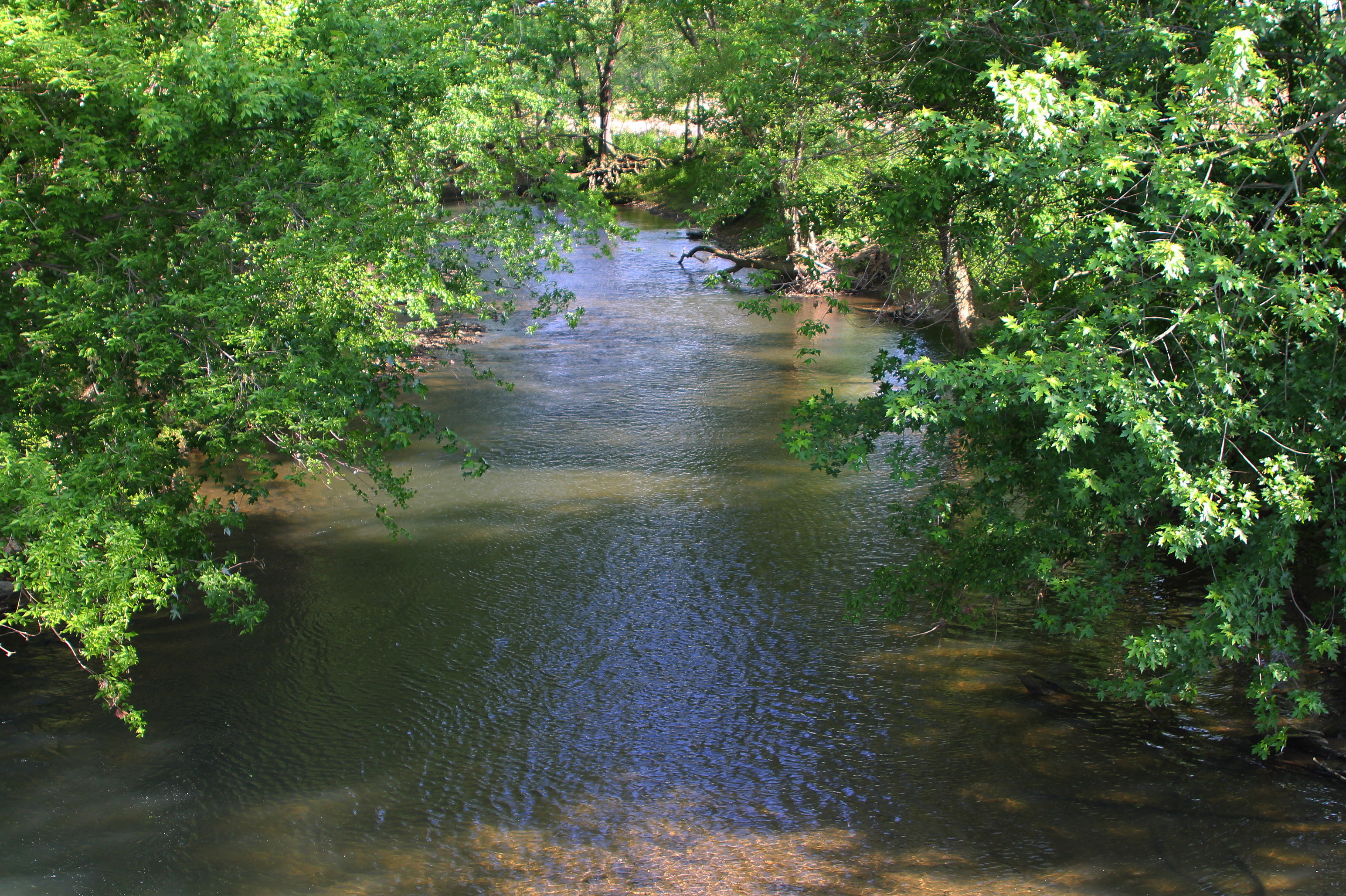 Chillisquaque Creek looking downstream just north of Washingtonville